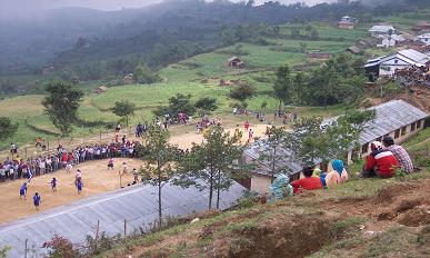 Volleyball match at Chandeswor Highschool playground, Balankha, Bhojpur District, Nepal